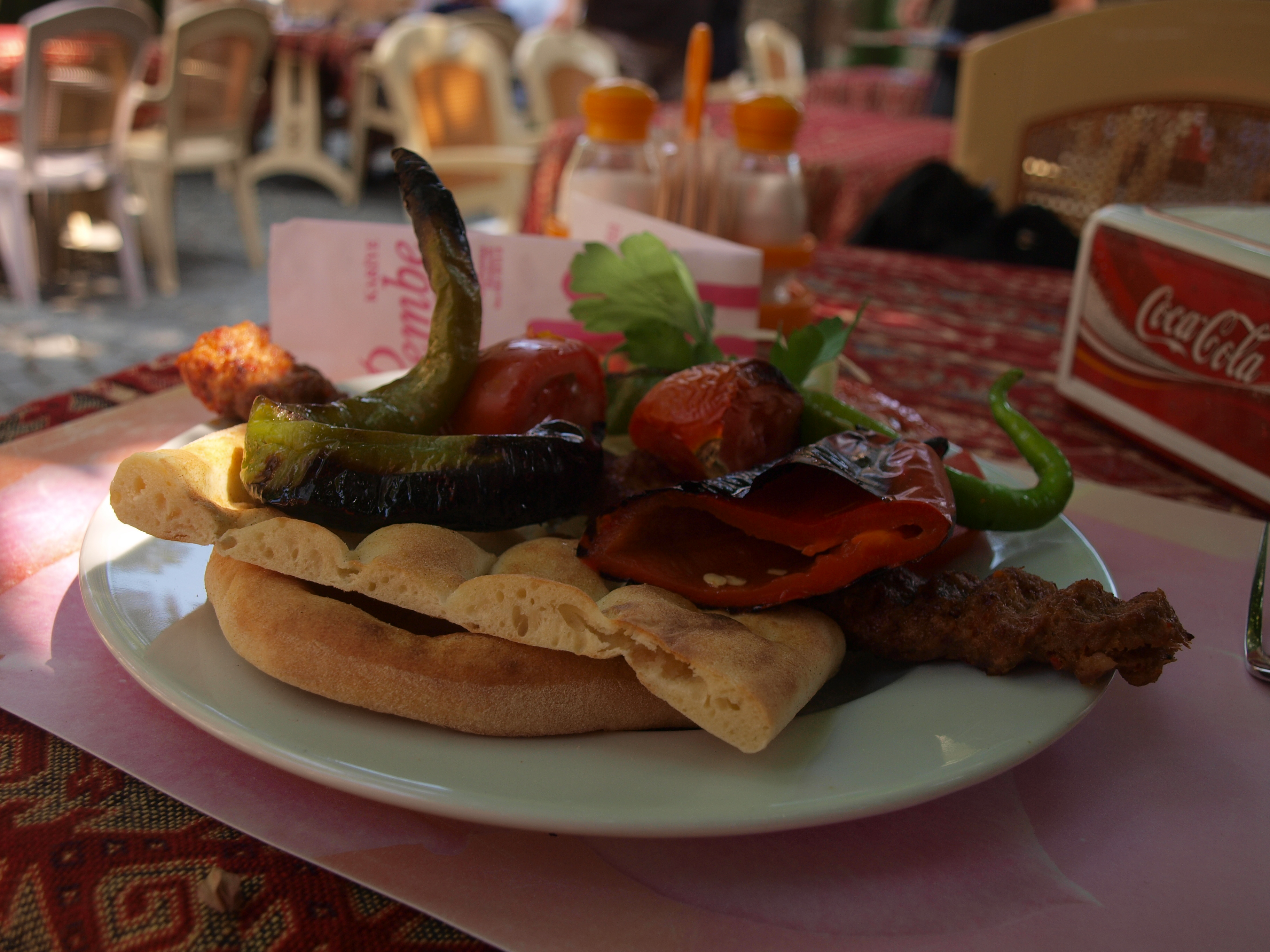 Adana kebap, a turkish dish.